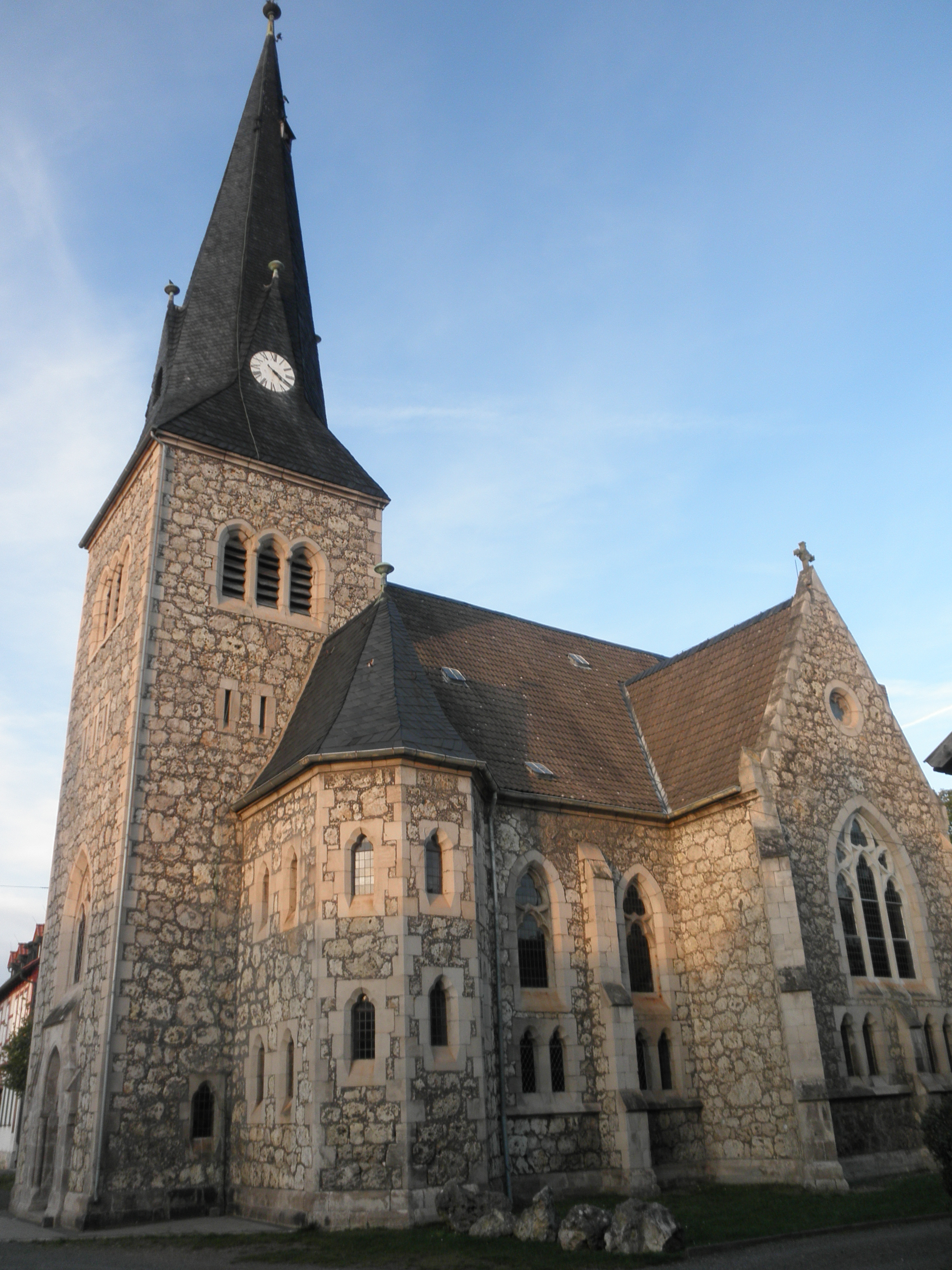 Church in Niedersachswerfen in Thuringia